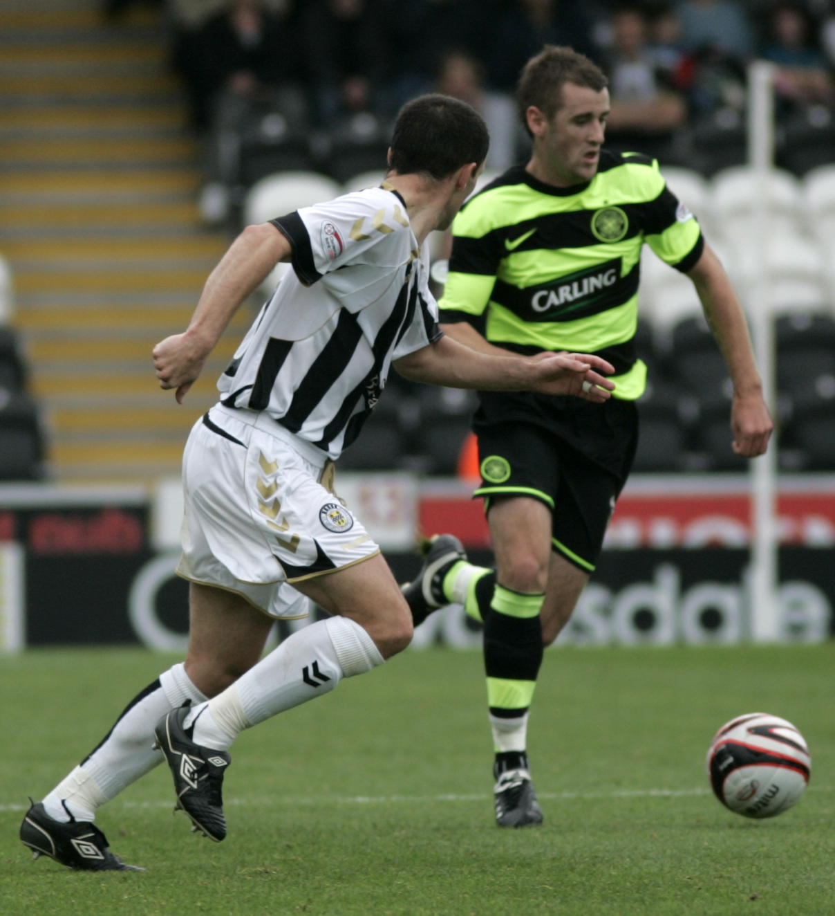 Niall McGinn